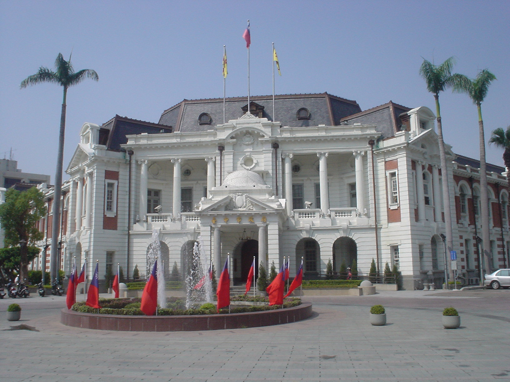 This building was completed by Japanese colonial authorities in 1924, and is still used today by Taichung's municipal government. This photo was taken on October 10, 2006.